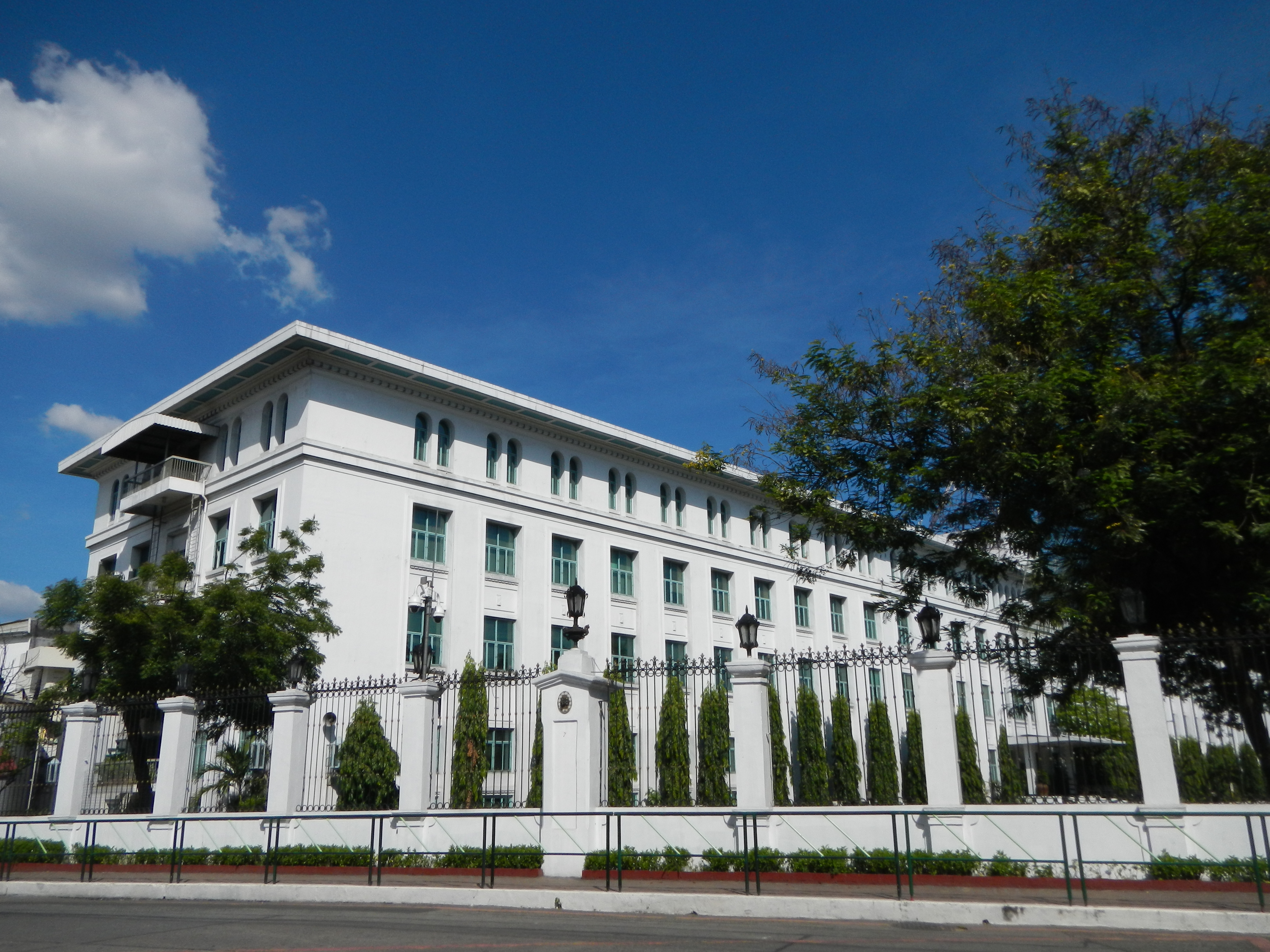 Malacañang Palace[1] [2] (Filipino: Palasyo ng Malakanyang), officially Malacañan Palace or simply "the Palace", is the official residence, but not the actual residence, and principal workplace of the President of the Philippines. It is located along Pasig River, Governors-General Francis Burton Harrison and Dwight F. Davis built an executive building, the Kalayaan Hall, which was later transformed into a museum. Since 1986 when Cory Aquino became president, only one president, Gloria Macapagal-Arroyo, has actually lived in the palace proper, though all lived on the grounds or nearby.[3]Coordinates: 14°35'38"N 120°59'39"E [4] 1000 José P. Laurel Street, San Miguel, Manila[5]Malacañang Palace and Museum Site of the presidency of the Philippines. The Malacañang Museum is situated in historic Kalayaan Hall – the old Executive Building built in 1920 lat: 14.5935506821, long: 120.995094299 [6] New Malacañang Facebook page seeks pics from Palace visitors[7]